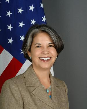 Maria Otero, Undersecretary of State for Democracy and Global Affairs (2009-)